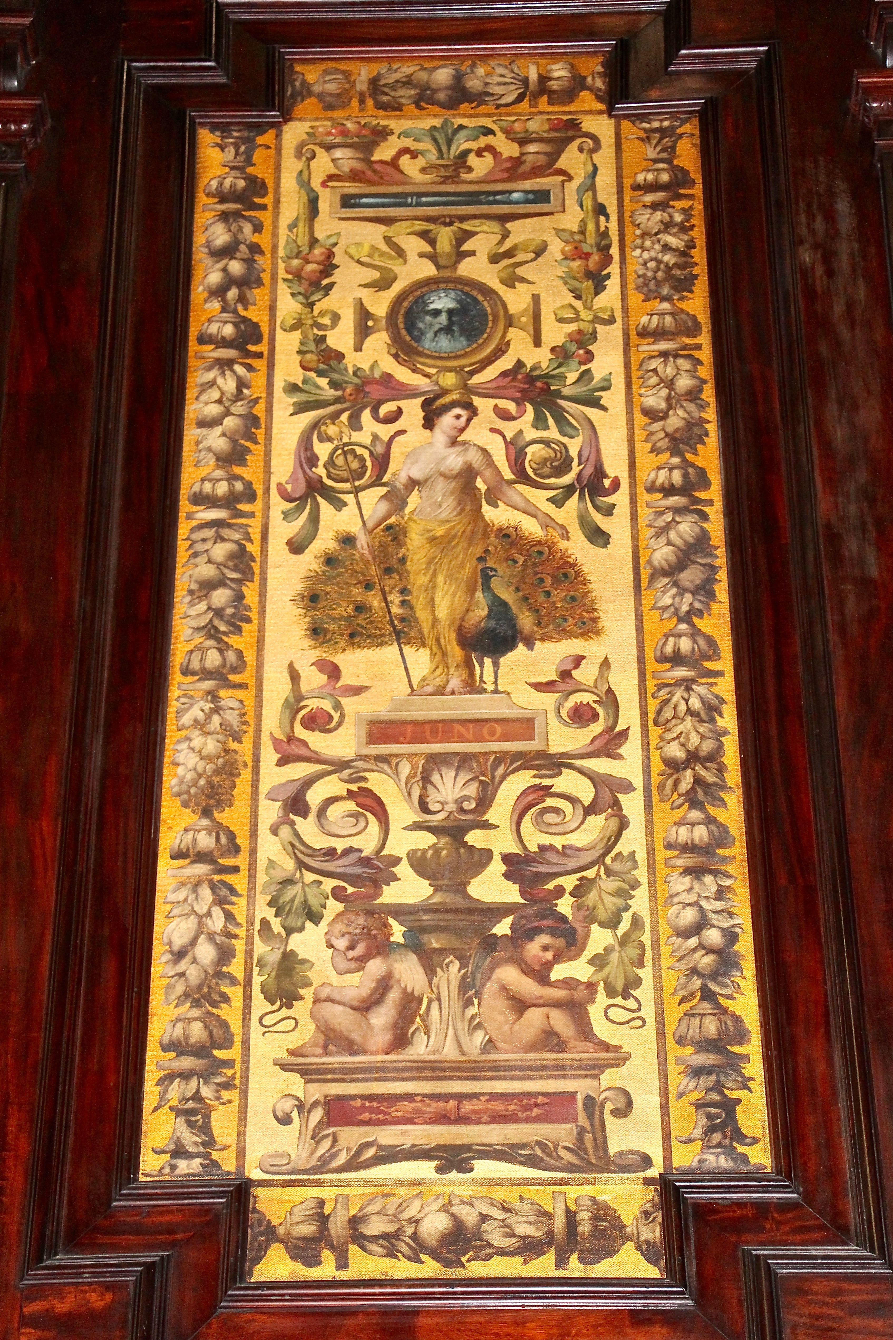 Staircase, George Stephen House, 1430–1440 Drummond Street, Montreal, Quebec, Canada.